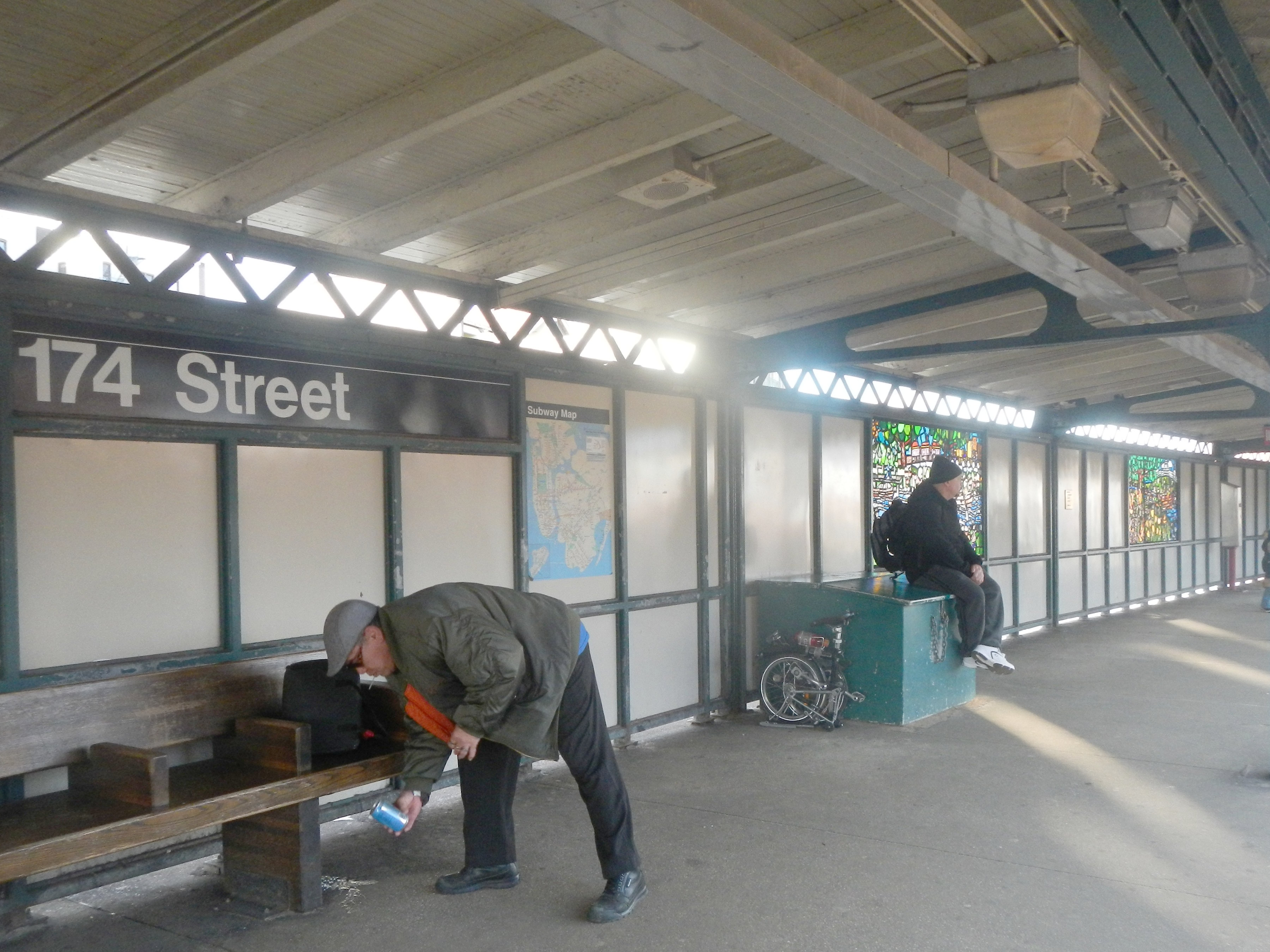 Looking north on southbound platform on a sunny afternoon.